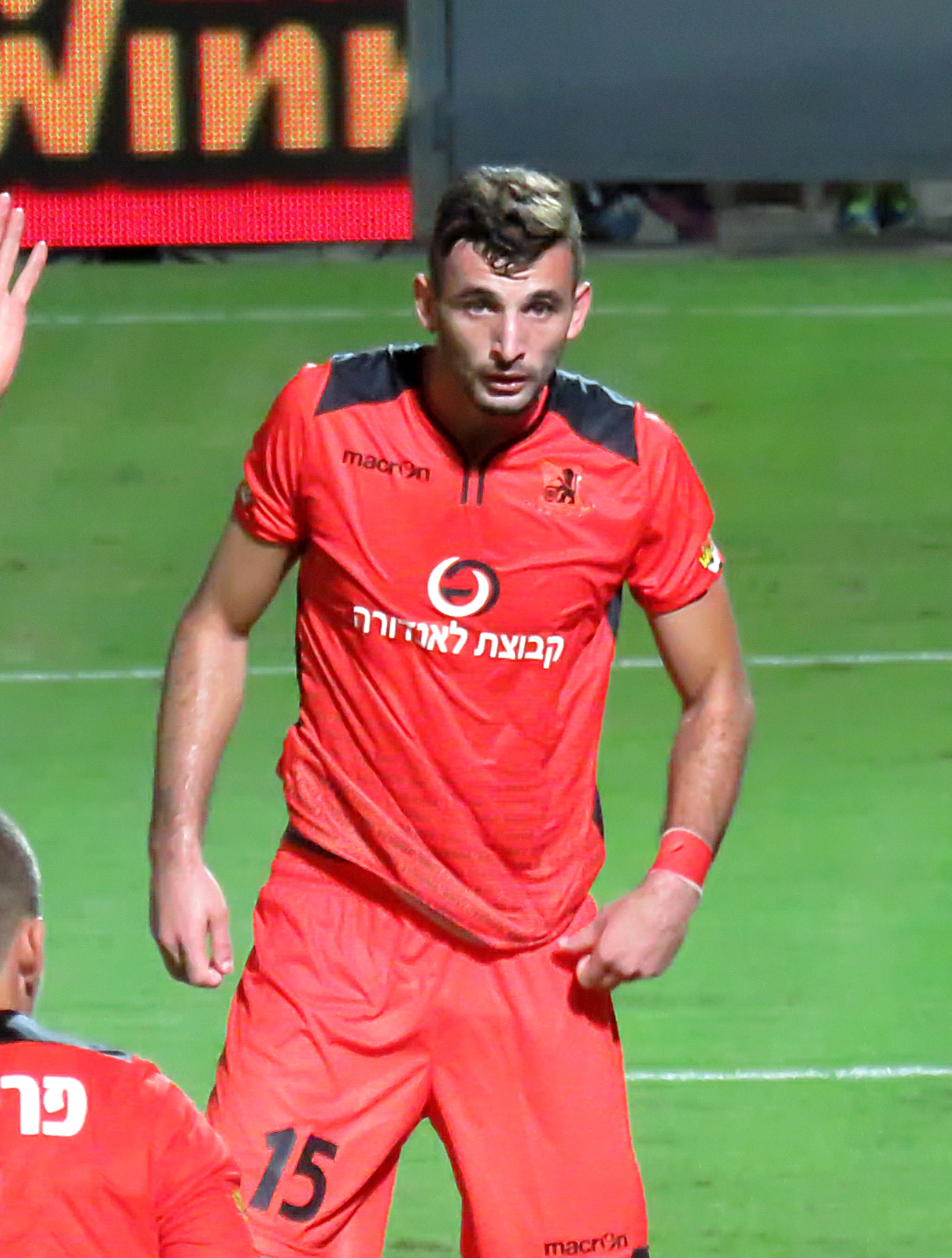 Bnei Yehuda Tel Aviv vs. Beitar Jerusalem - 19 September, 2015